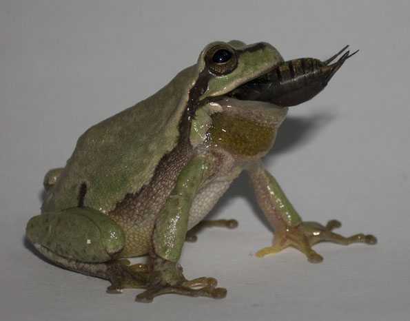 European tree frog (Hyla arborea)